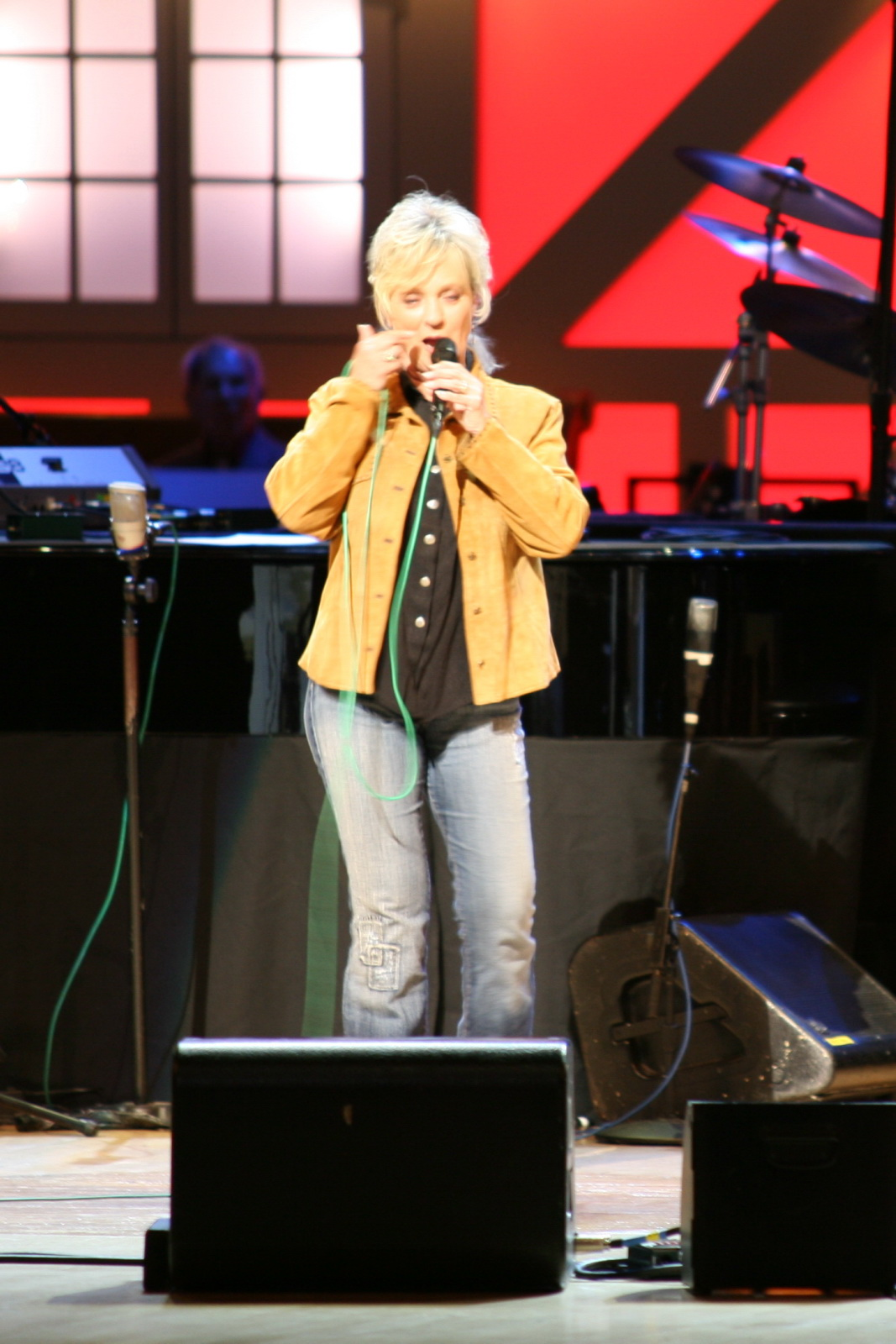 Connie Smith performing at the Grand Ole Opry in May 2007.